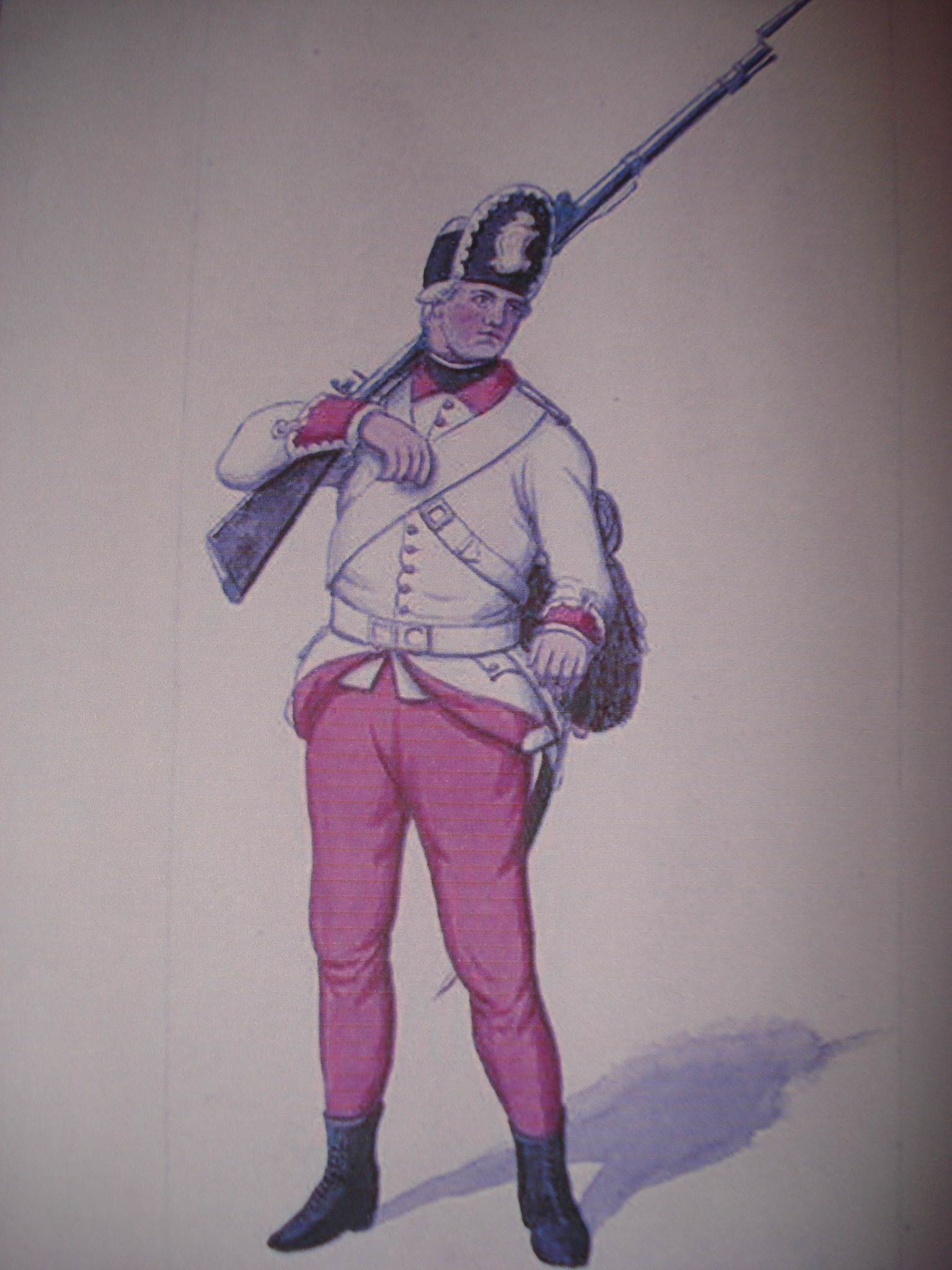 Soldier of the Infrantry regiment Šišković /Shishkovich/, Habsburg Monarchy (18th century)